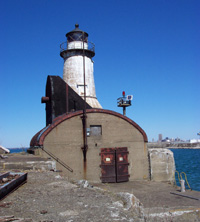 BUFFALO HARBOR SOUTH ENTRANCE LIGHT